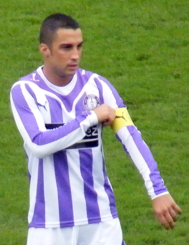 Tibor Tisza Hungarian football player